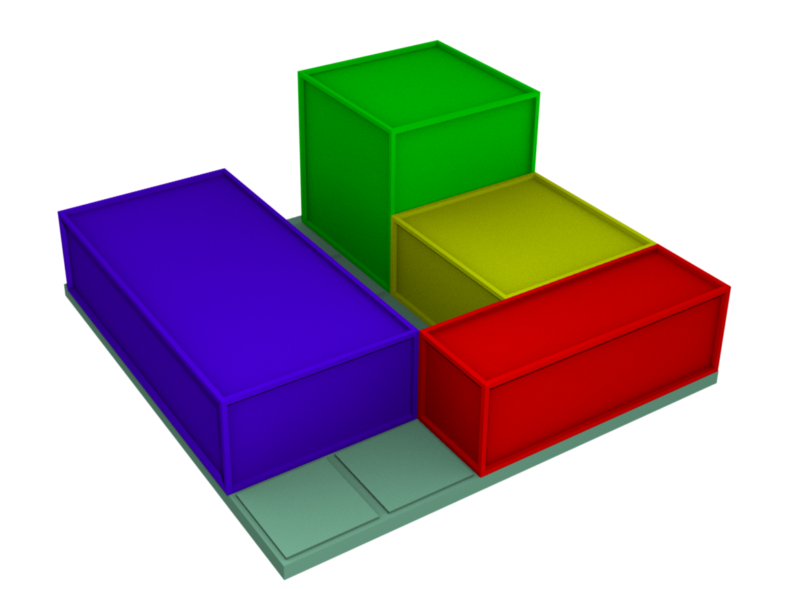 An image for Conway puzzle.